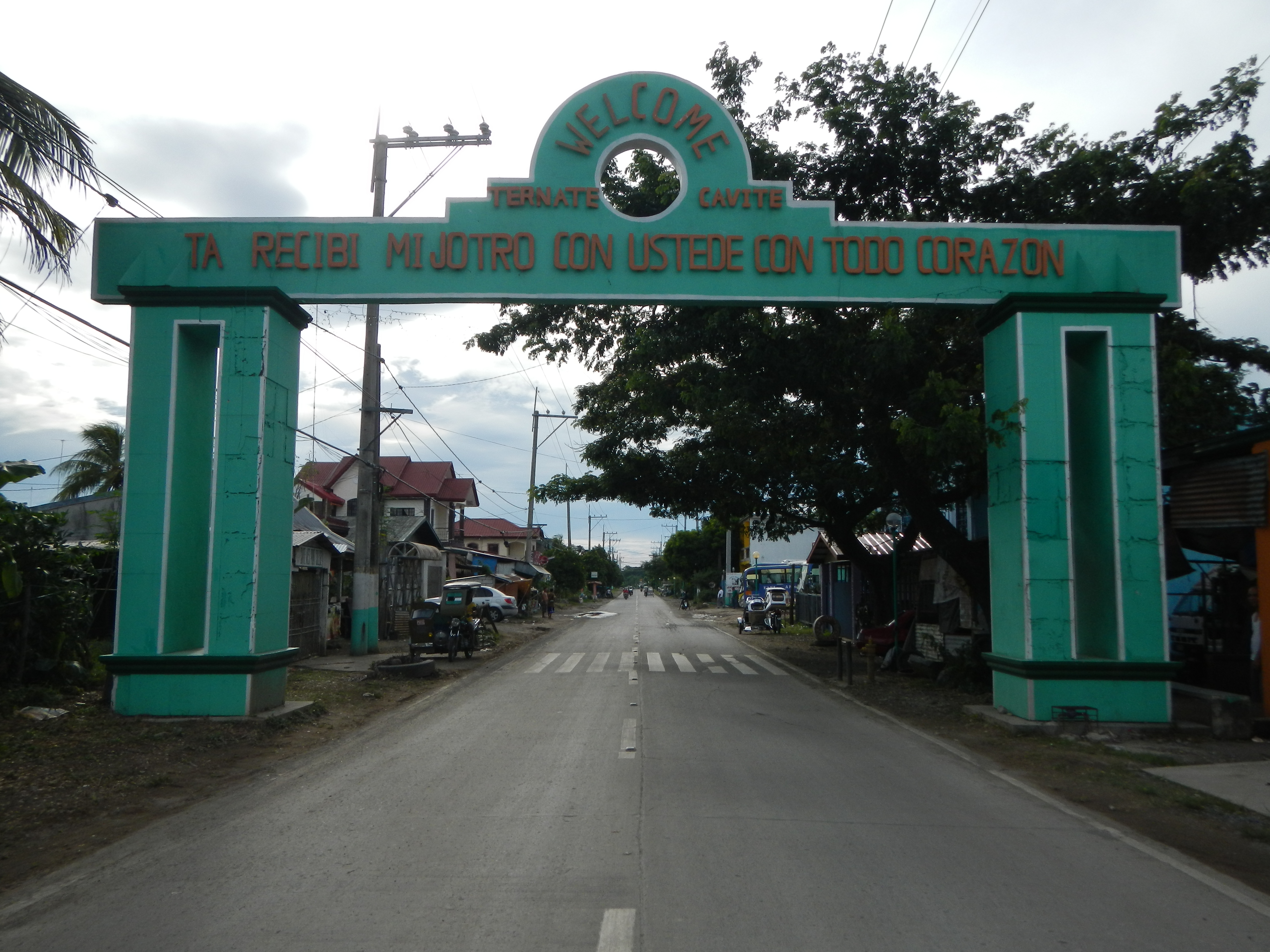 Boundary (Barangays of both Ternate and Magondon, Cavite) Welcome Arch of Ternate, Cavite[1] & Maragondon, Cavite [2] - at National Highway - Governor's Drive[3] - Ternate, Cavite[4] Website tuloy tuloy lang po sa bayan ng ternate chavacanos[5] Coordinates: 14°16'13"N 120°41'10"E - Kumusta ka na kabayan at Kaibigan! town proper of Ternate. Aquino woos Caviteños, raves over ‘tourism road’ Friday, April 5th, 2013 Ternate Ternate-Nasugbu (aka Kaybiang) Tunnel: The Longest Underground Road Tunnel in the Philippines March 22, 2013.